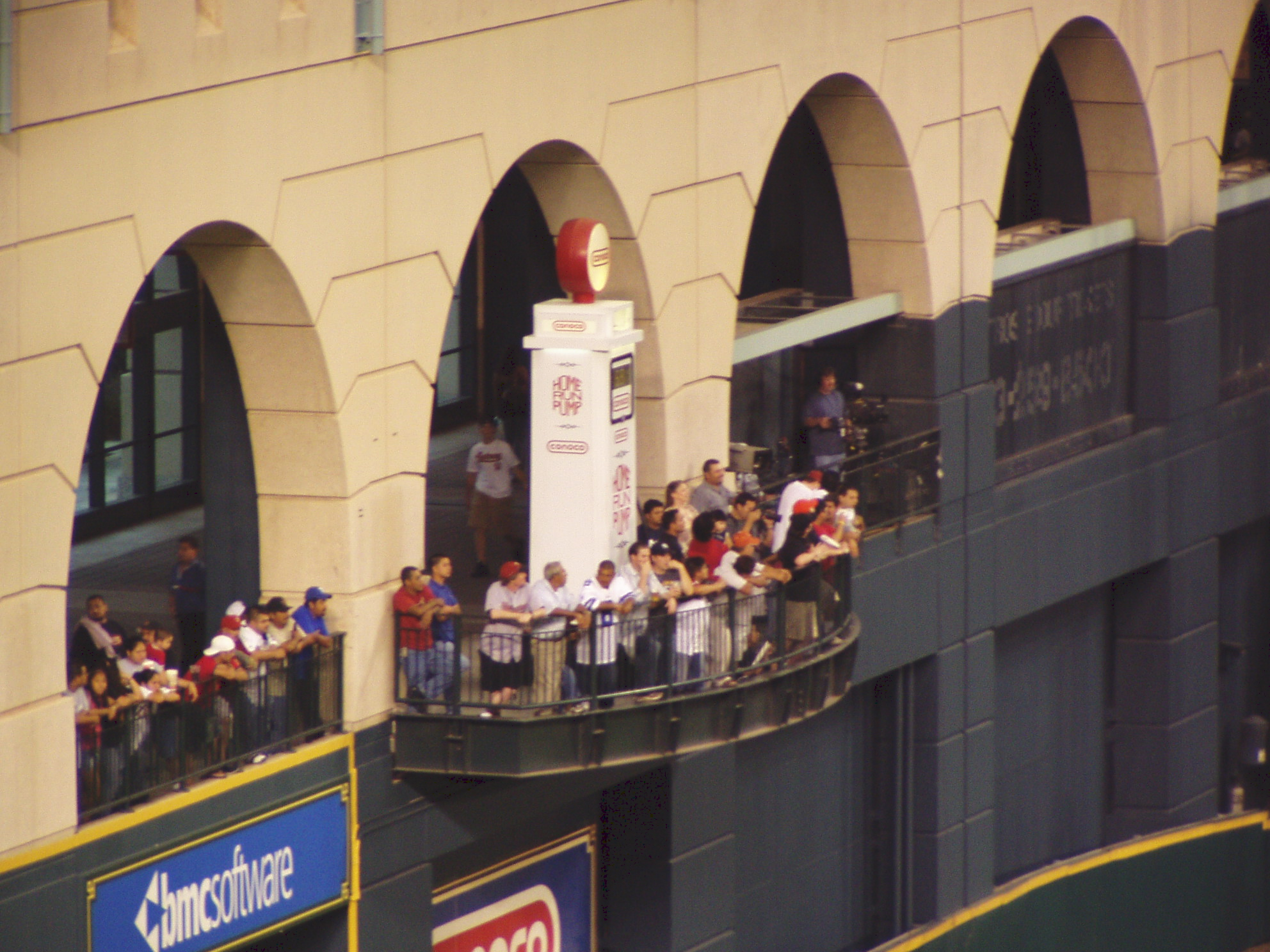 16:40, 20 August 2006 . . Cjosefy . . 1984×1488 (794,750 bytes) (Taken by me, July 2006.)